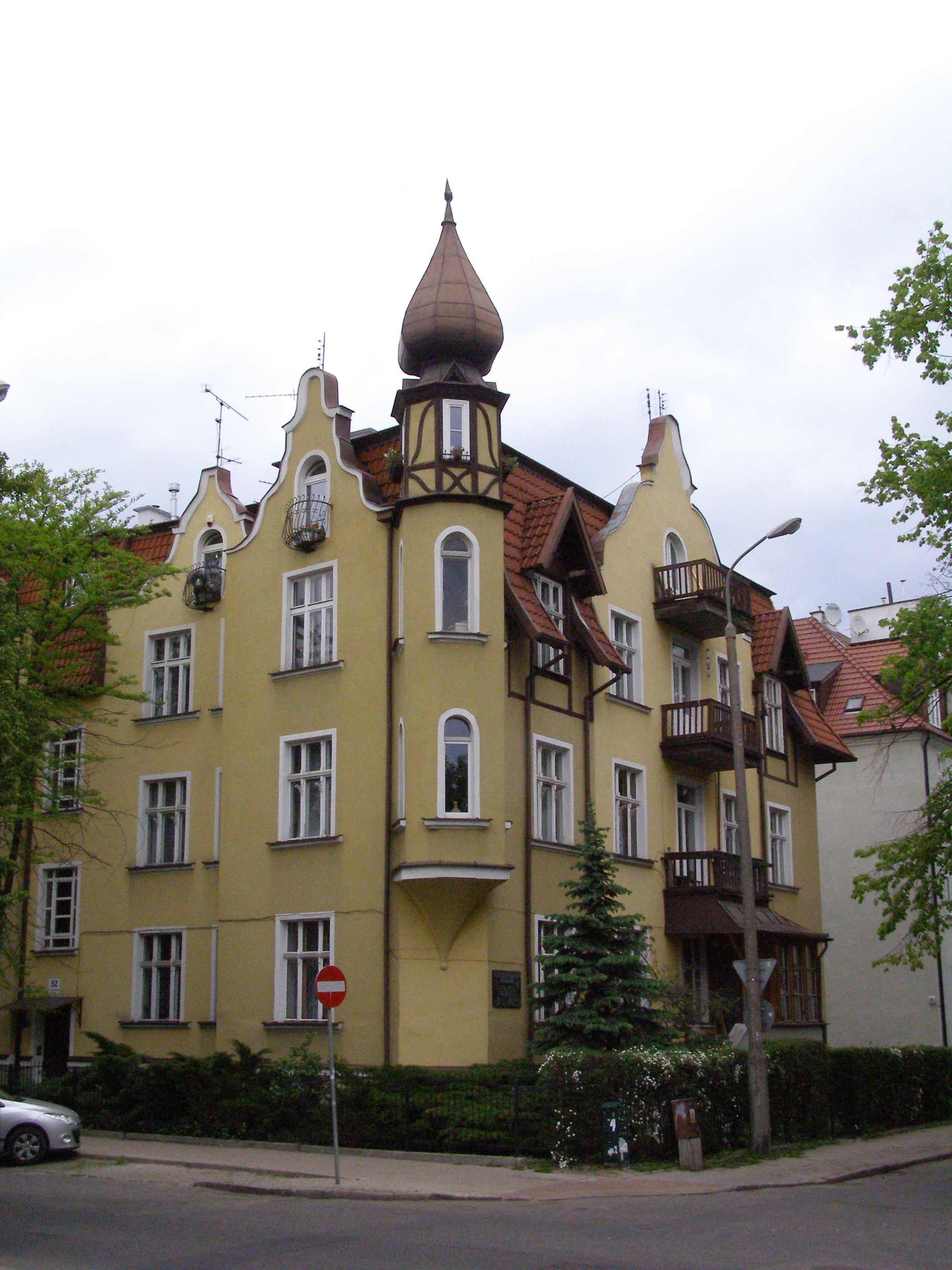 Sopot - a villa in Haffnera str.